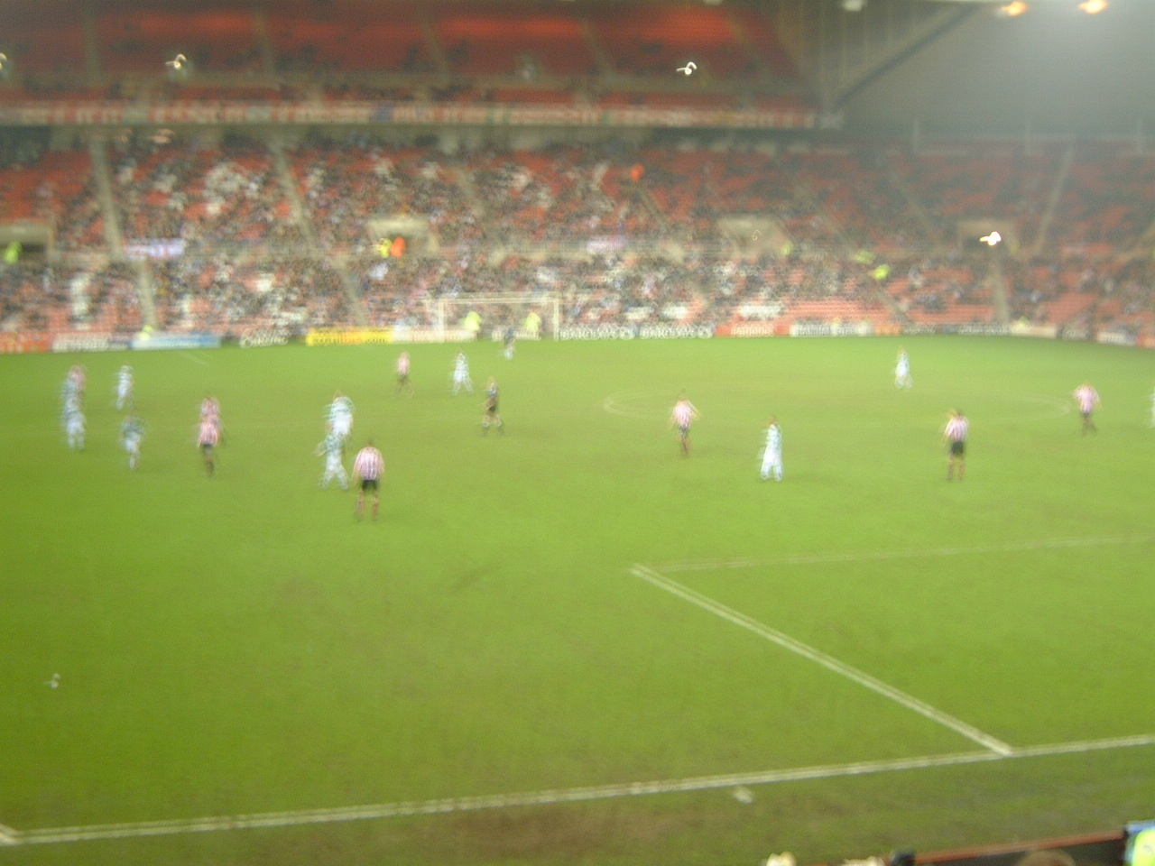 Author- United88, own work. Northwich Victoria FC playing against Sunderland AFC at the Stadium of Light in the FA Cup Third Round on 7th January 2006.